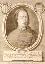 Cardinal Giovanni Francesco Albani (1720-1803)